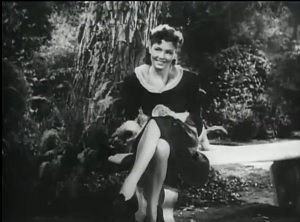 A screenshot of Yolande Donlan (1920 - 2014) in the public domain movie The Devil Bat (1940).